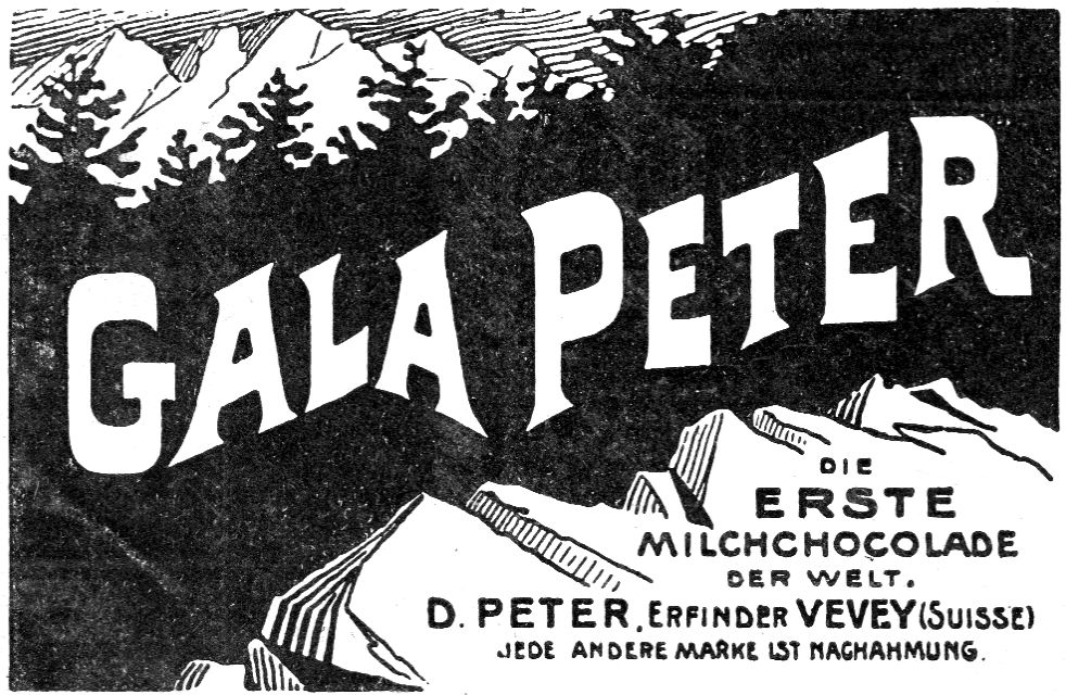 Advertisement for Gala Peter chocolade.